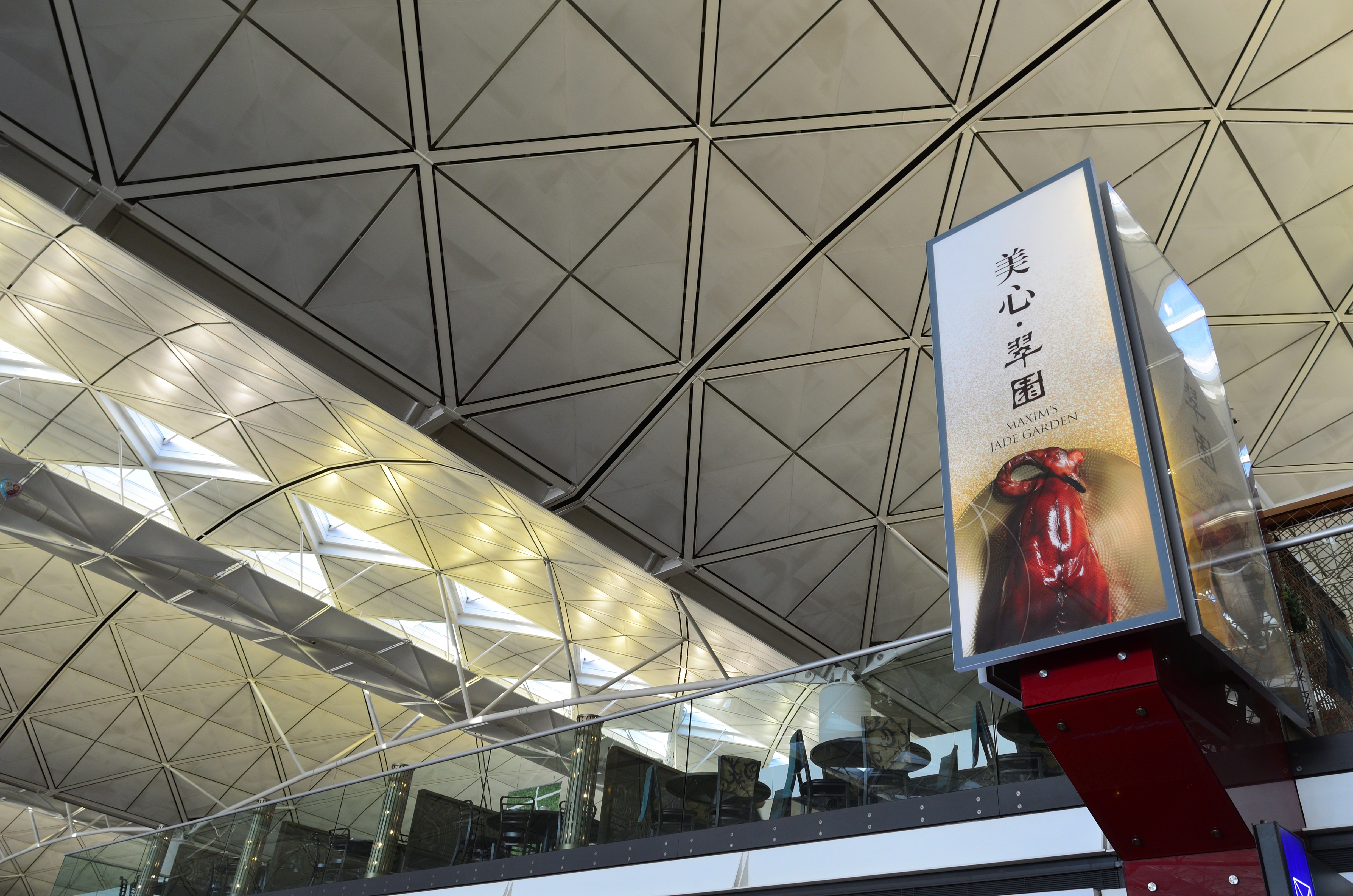 Maxim's Jade Garden at Hong Kong International Airport Terminal 1